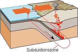 Sceme of Subduction (in German)